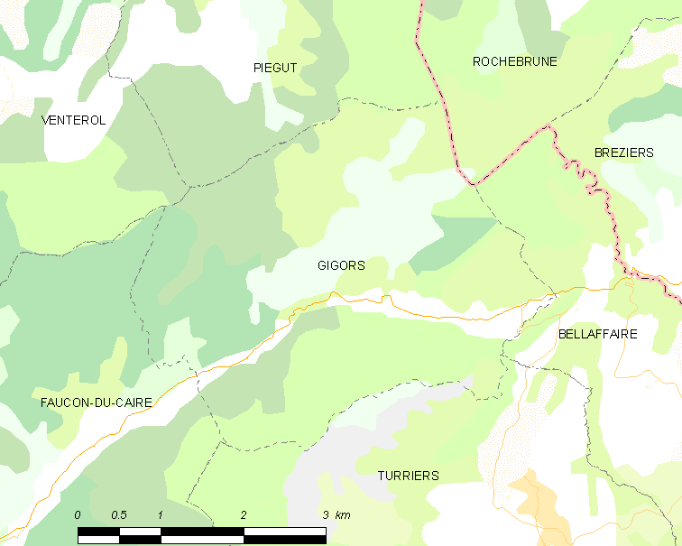 Map commune FR insee code 04093.png Légende